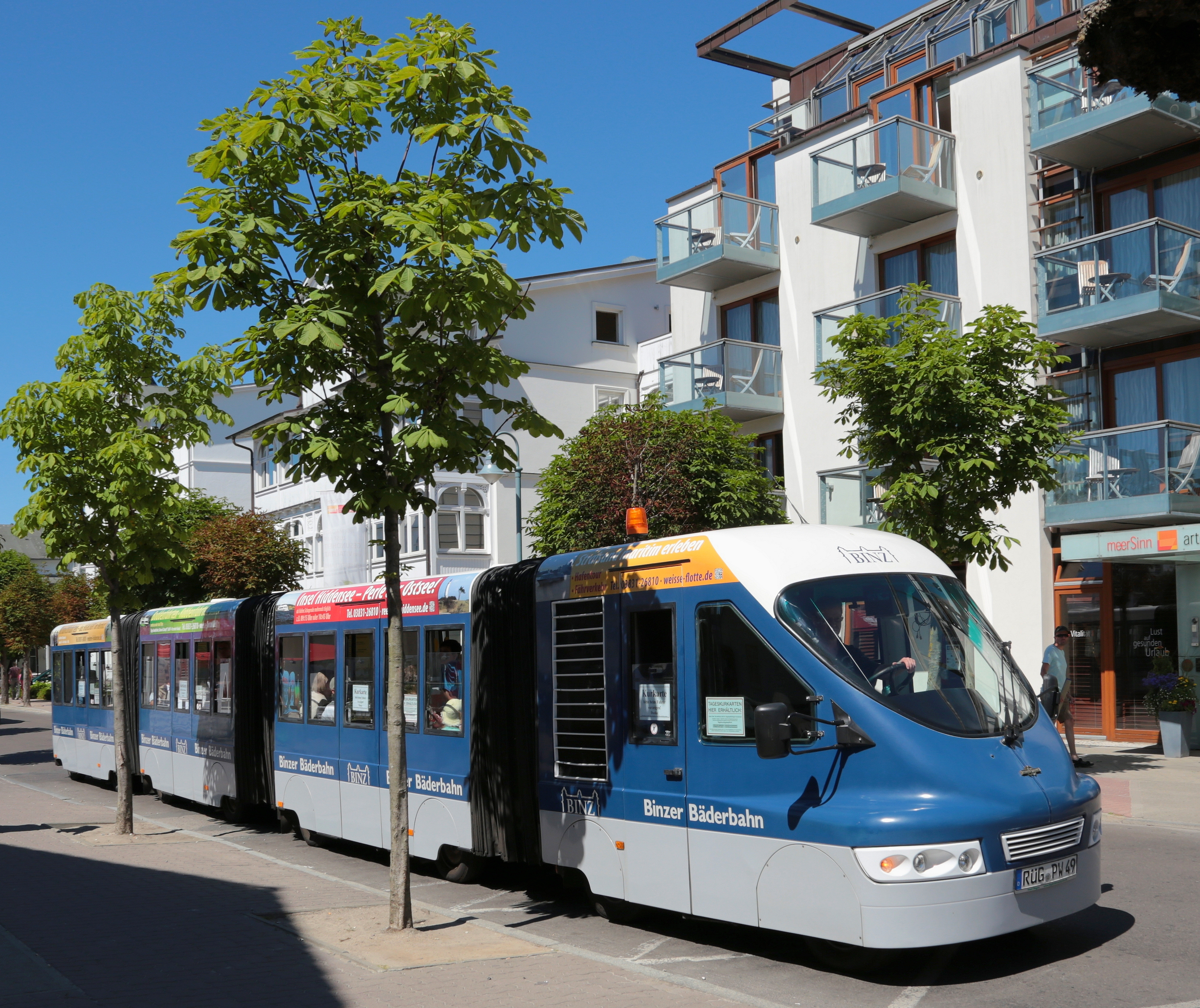 The Binzer Bäderbahn on Schiller Street (Schillerstraße) in Binz, Landkreis Vorpommern-Rügen, Mecklenburg-Vorpommern, Germany.